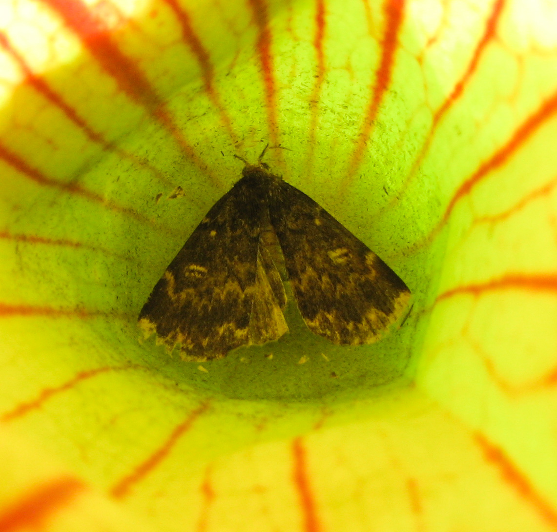 Idia lubricalis (Glossy Black Idia) moth on Sarracenia purpurea (closeup). Pennypack Restoration Trust, Montgomery County, Pennsylvania, USA. .